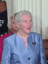 Janet Rowley at the White House, receiving the Presidential Medal of Freedom in August 2009